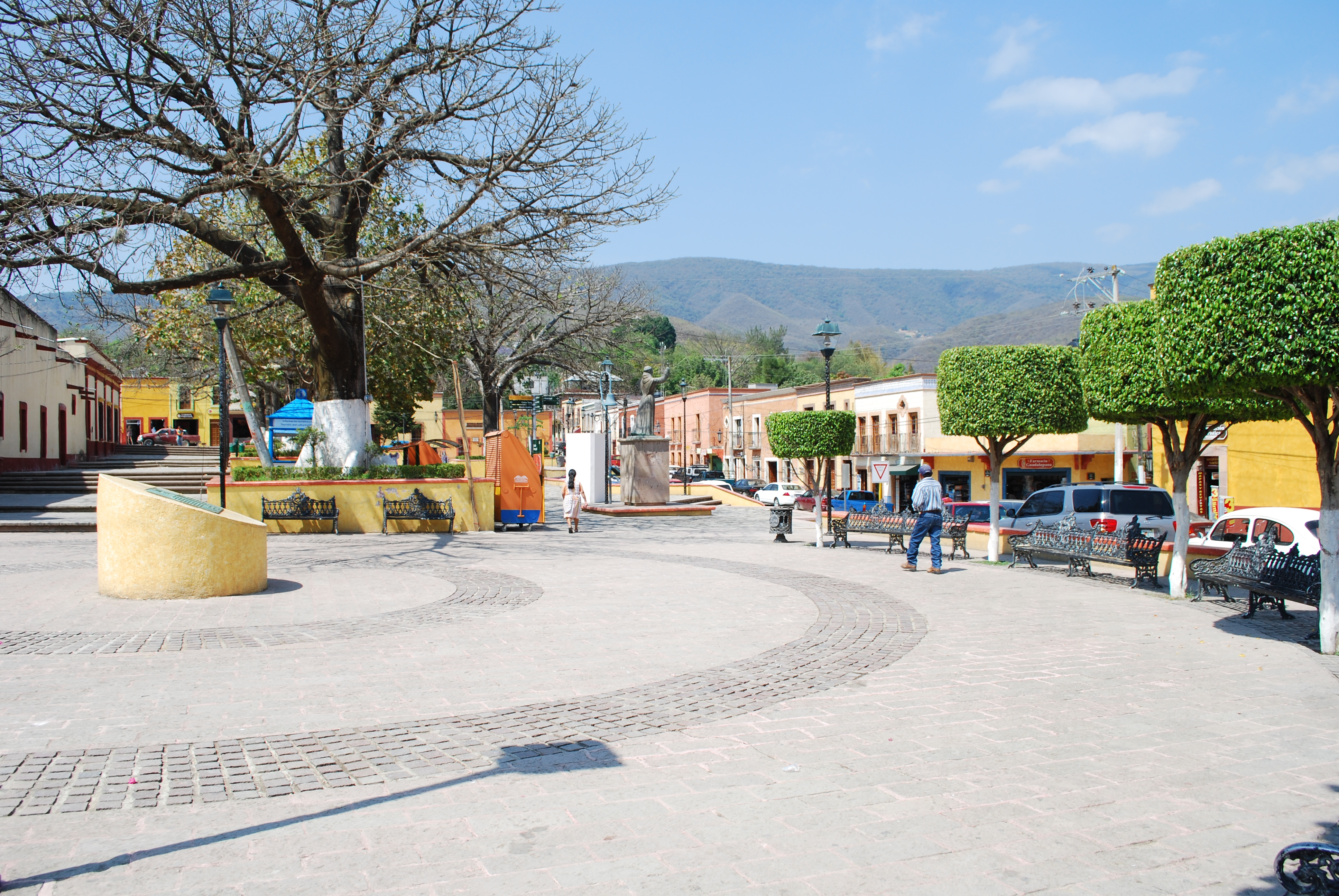 The Fraile Plaza in Jalpan de Serra,Querétaro, Mexico